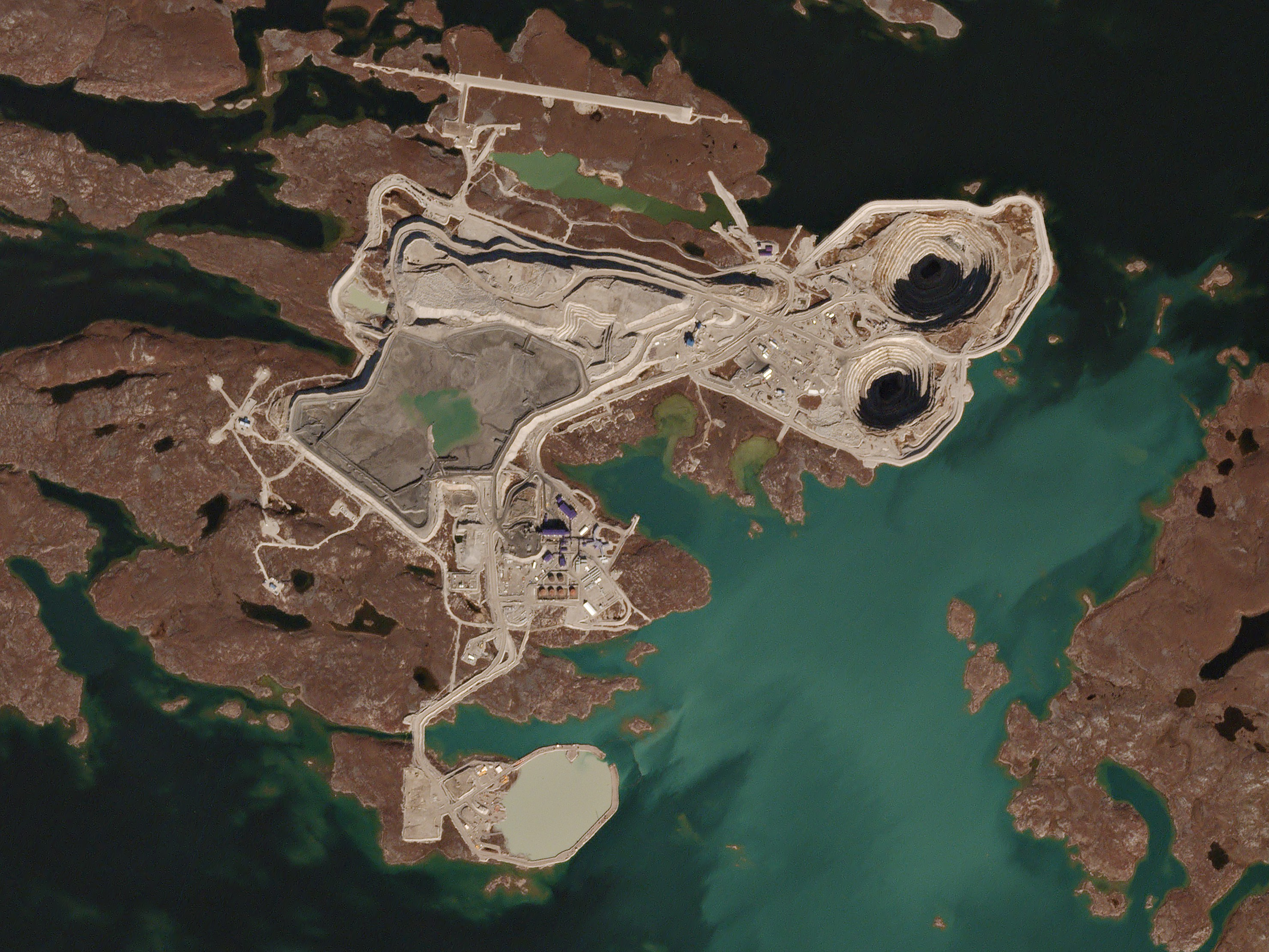 Diavik, Canada September 21, 2016 The Diavik Diamond Mine gouges deep into the sub-arctic tundra of Canada's Northwest Territories. Since opening in 2003, over 100 million carats of rough diamond have been extracted from the mine.